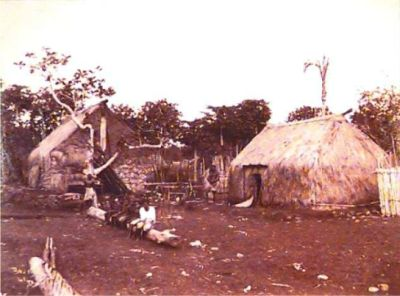 Bau, Fiji